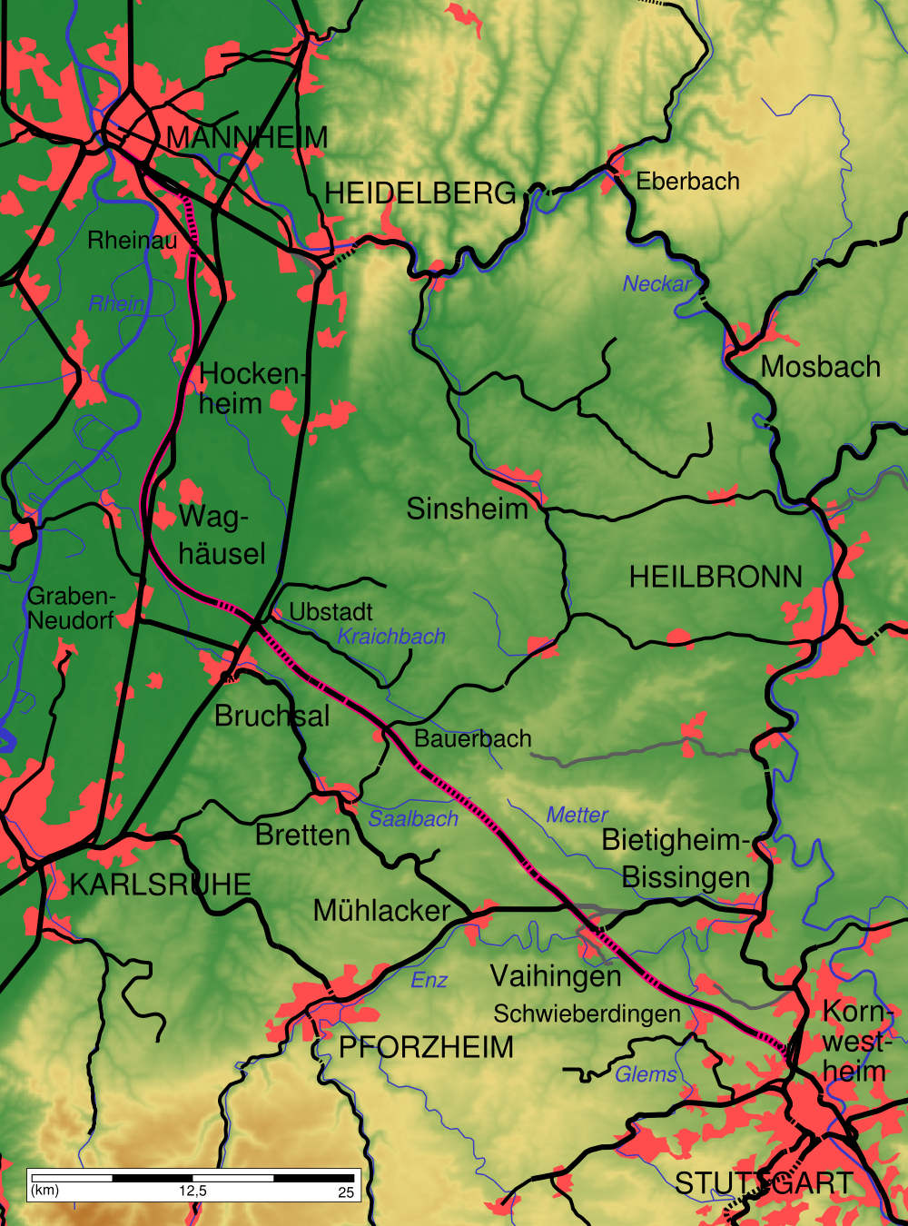 map of High-speed rail Mannheim–Stuttgart. please see User:Kjunix/BahnNWB for comments.